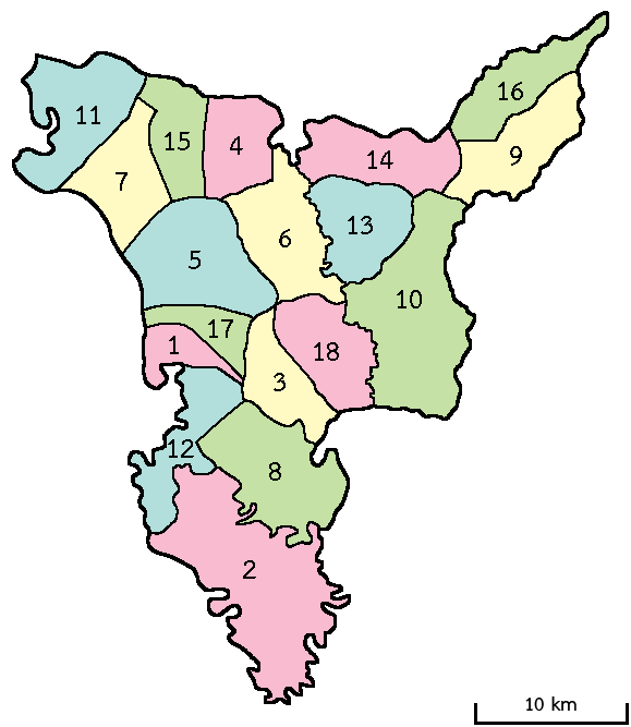 Subdistricts of Selaphum